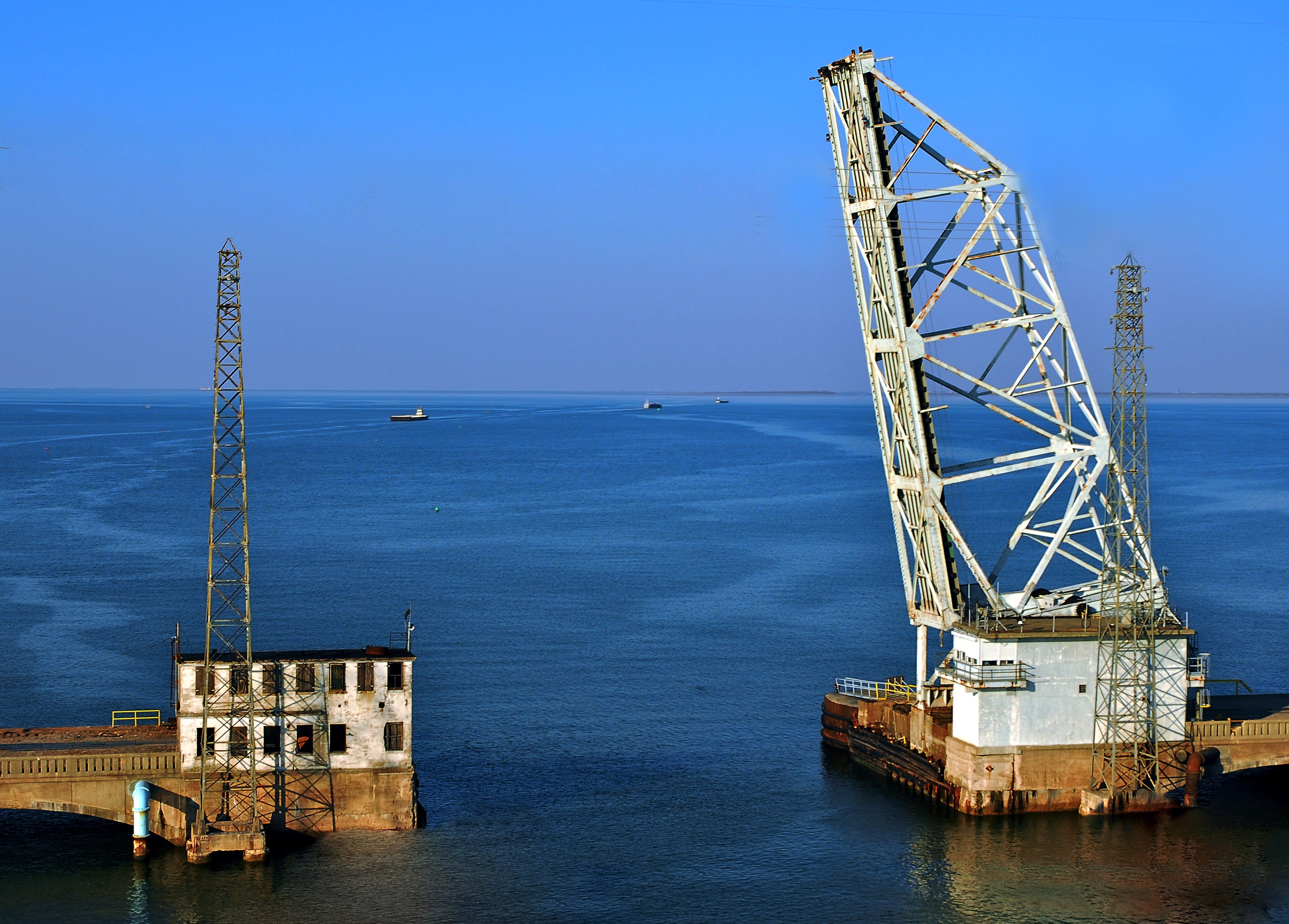 Old Galveston Causeway and railroad draw bridge. Galveston, Texas, USA.